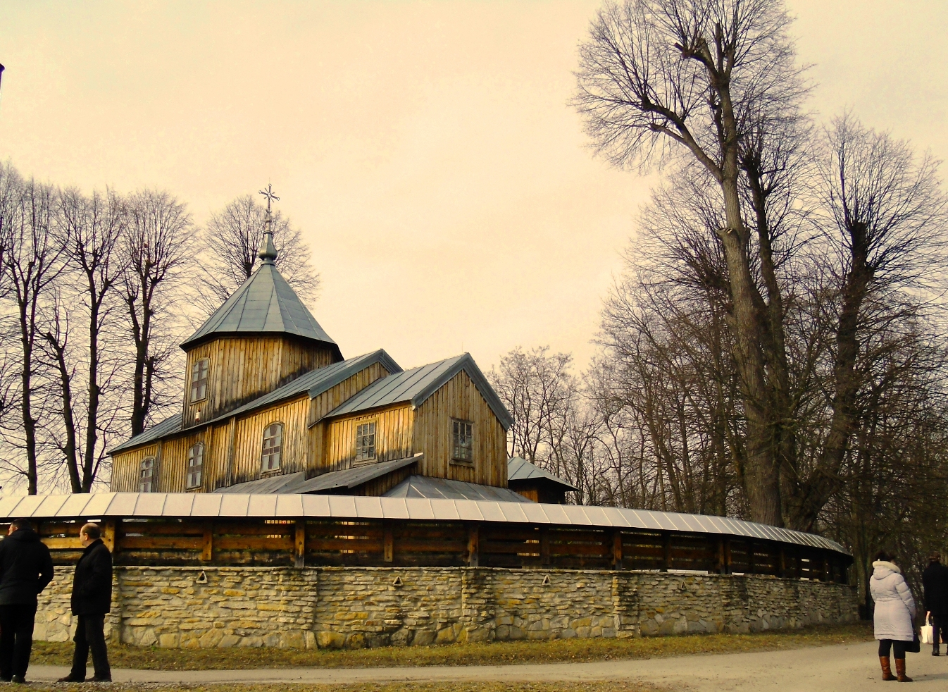 Młyny, Subcarpathian Voivodeship, Poland. Wooden Greek Catholic church (aprox. 1740). Now Our Lady of Consolation Catholic Church.